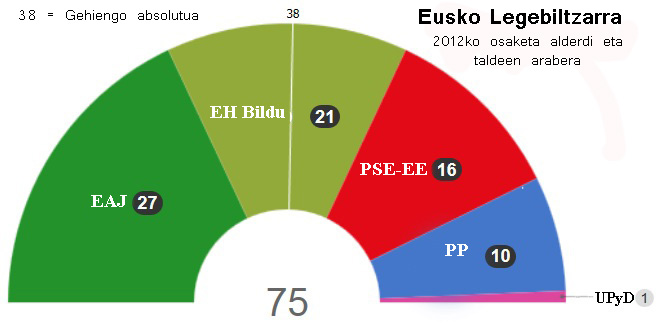 2011 Basque Parliament's composition by political parties and groups.